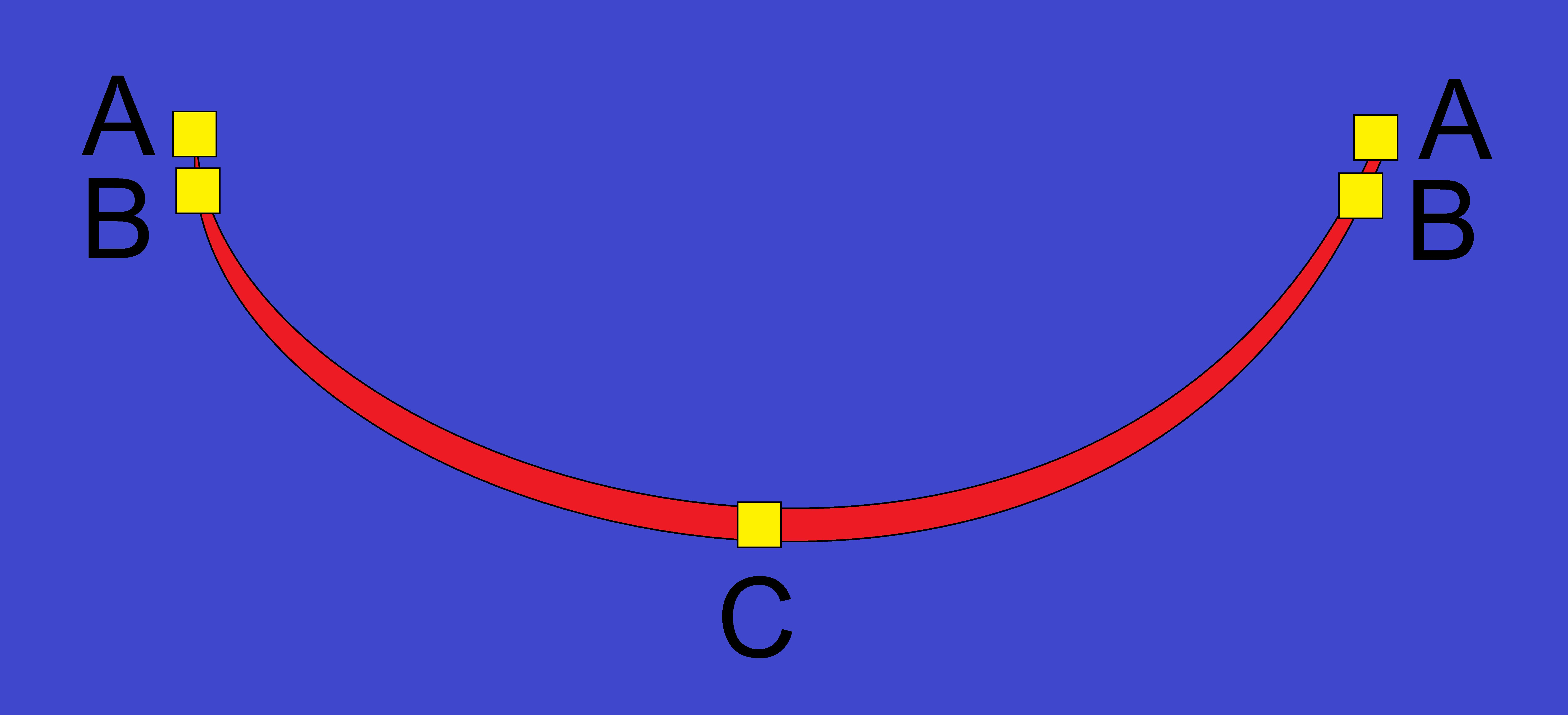 The Ocean Cleanup diagram. A: Navigation pod B: Satellite pod C: Camera pod